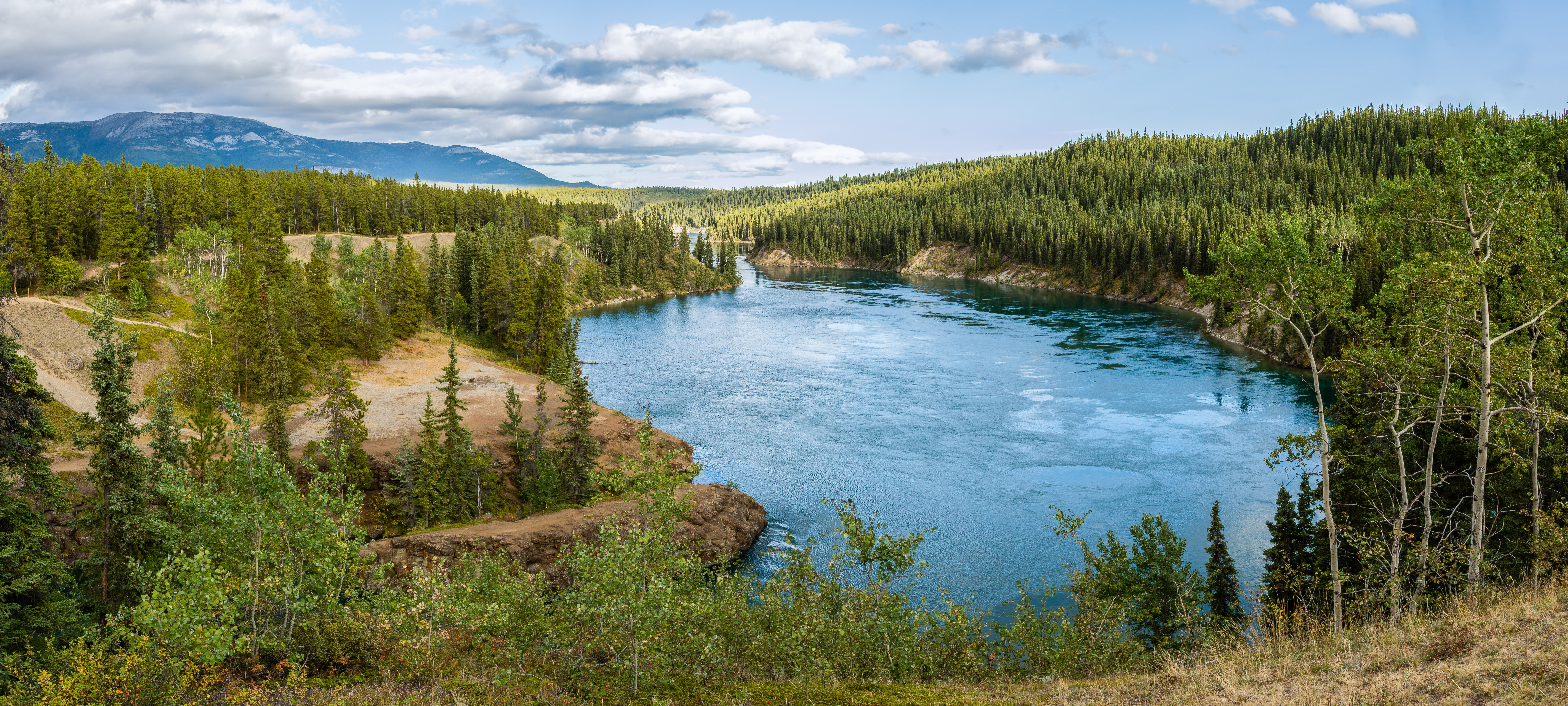 View of the Yukon River at Schwatka Lake and the entry to Miles Canyon, not far from Whitehorse, Yukon, Canada. The Miles Canyon is a featured location for its volcanic basalt formations.